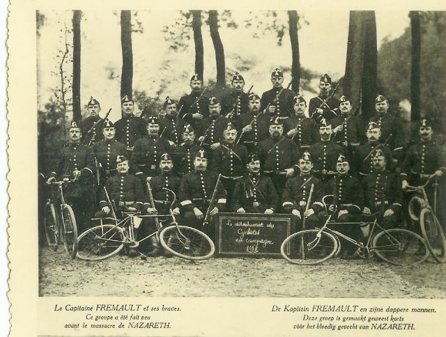 Groep rijkswachters onder leiding van kapitein Camiel Fremault, die een belangrijke rol speelden in de Slag aan de Edemolen op 7 oktober 1914 tijdens de Eerste Wereldoorlog